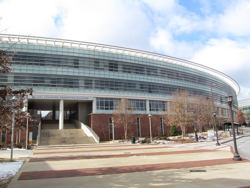 The 2007, LEED Gold certified, Klaus Advanced Computing Building at Georgia Tech. The building is named after its most significant donor, Chris Klaus. Students have nicknamed the building the 'Colisseum of Computing.'